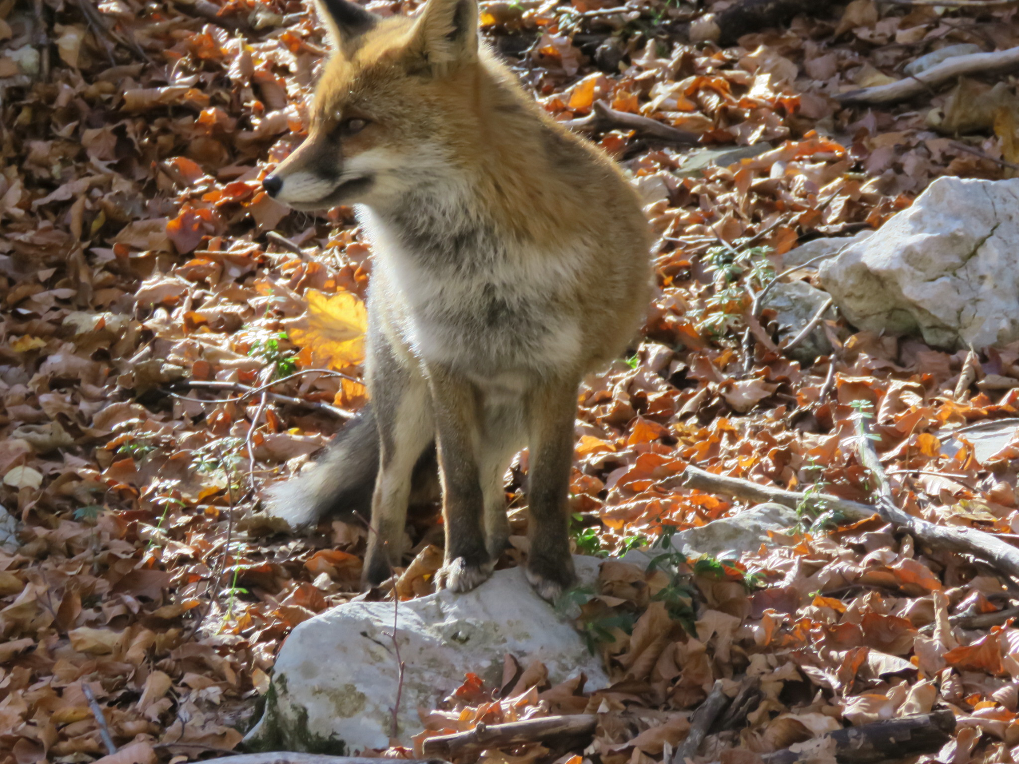 National Park of Abruzzo, Lazio and Molise